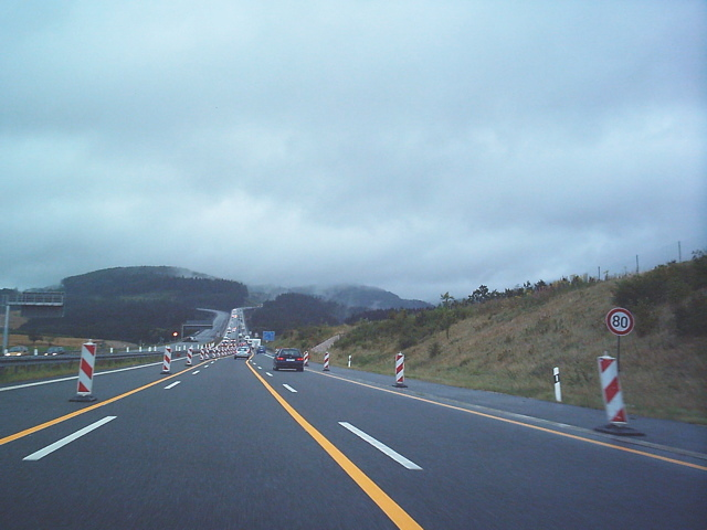 Roadworks - A9 Autobahn, Germany. Nearby the exit Schnaittach (no. 48), view towards the hill Hienberg.